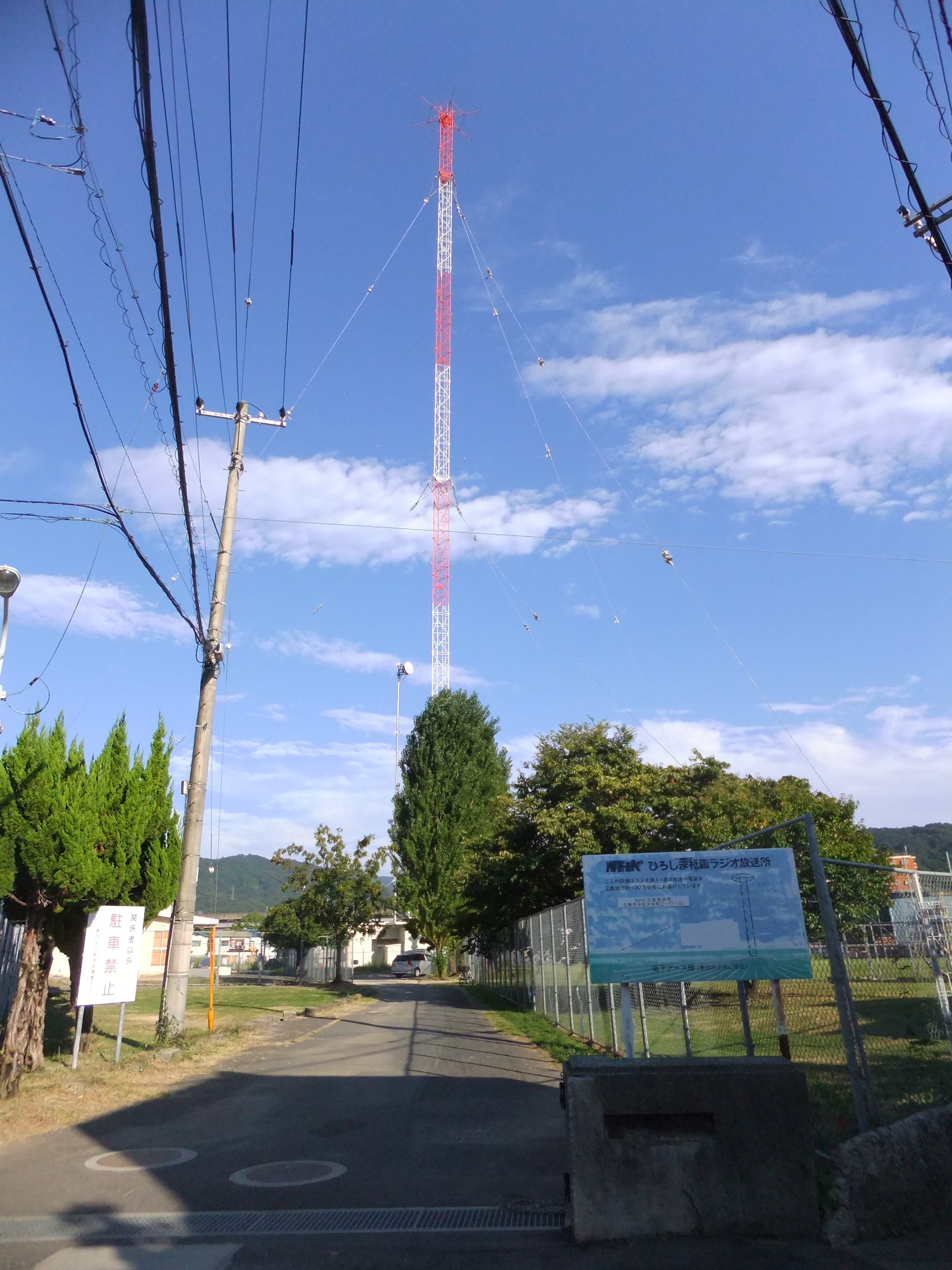 NHK Gion Radio Transmitting Station in Asaminami-ku, Hiroshima NHK Radio 1:JOFK 1071kHz 20kW NHK Radio 2:JOFB 702kHz 10kW